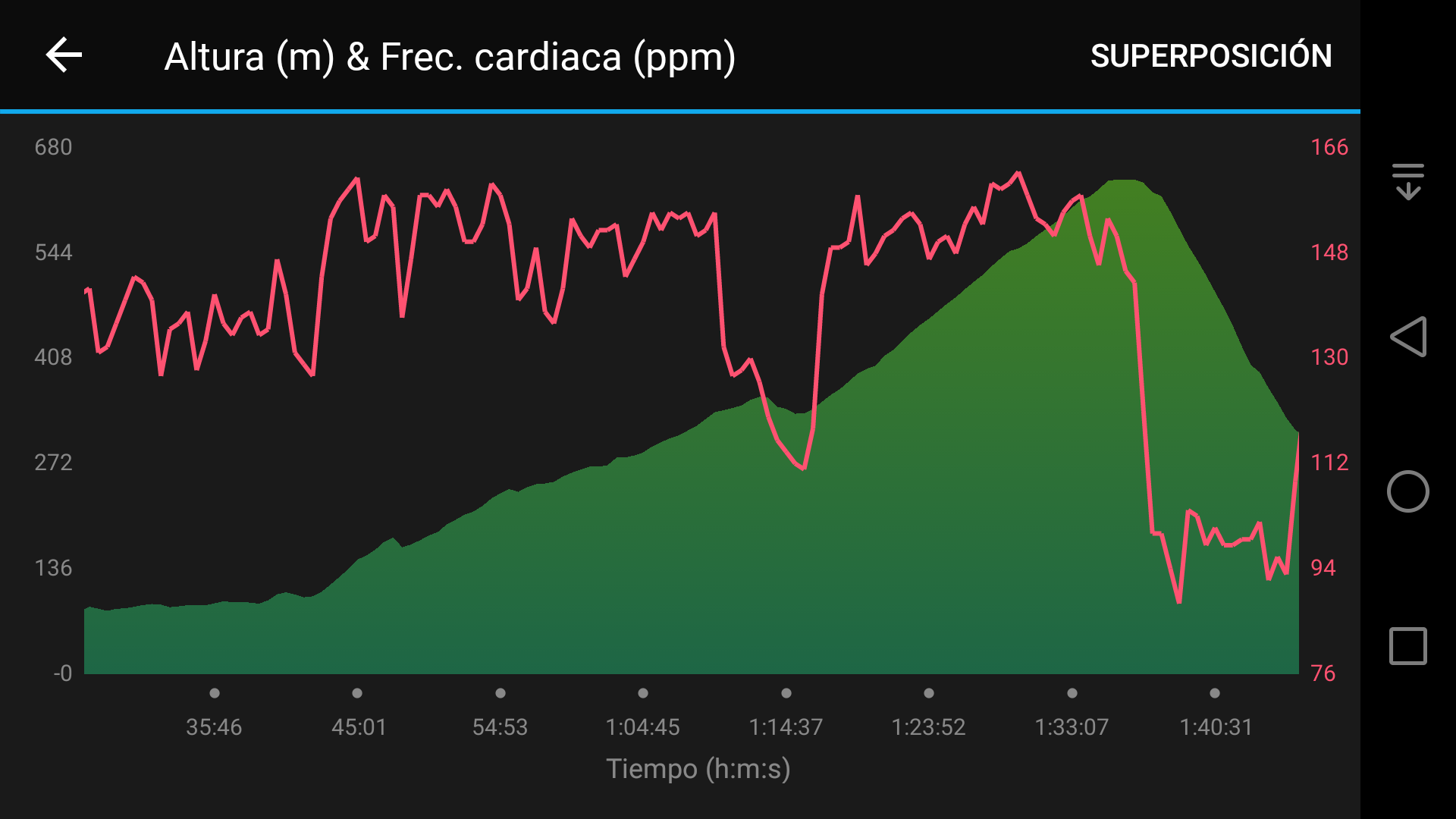 sport